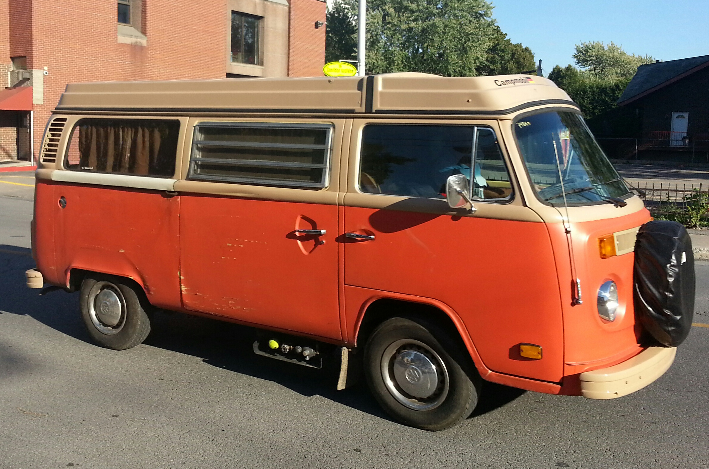 Volkswagen Kombi photographed in Montreal, Quebec, Canada.